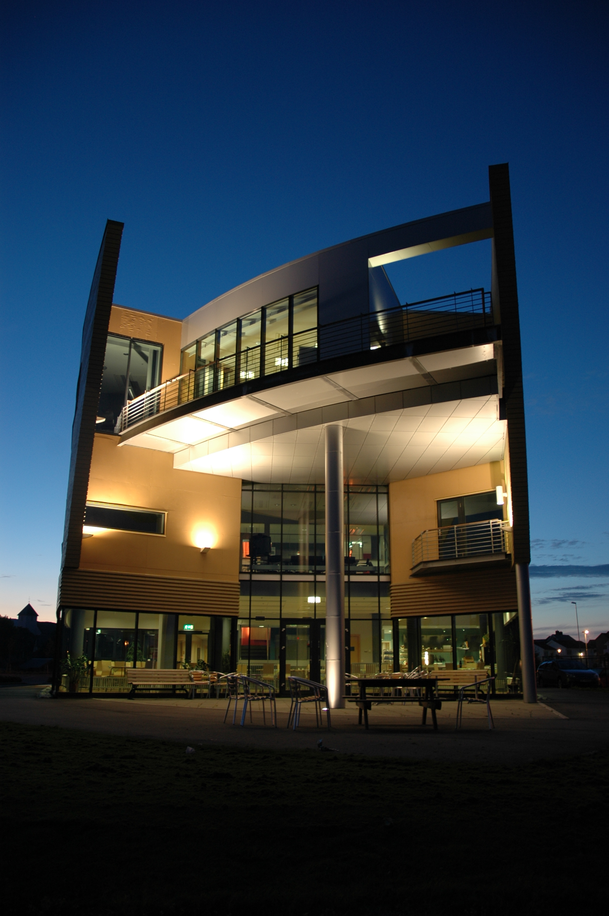 Telenor offices in the Norwegian town Rørvik